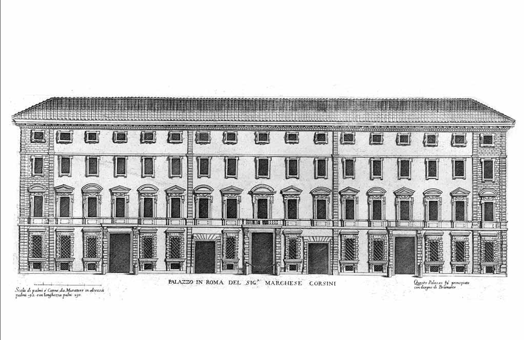 Palazzo del Signori Marchese Corsini